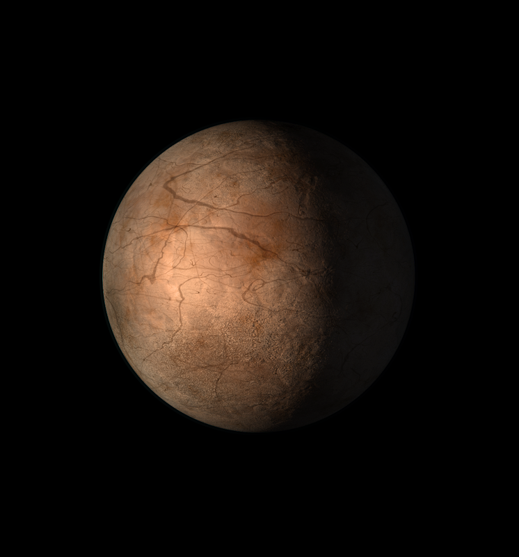 Artist's impression of TRAPPIST-1h planet, as of 2018